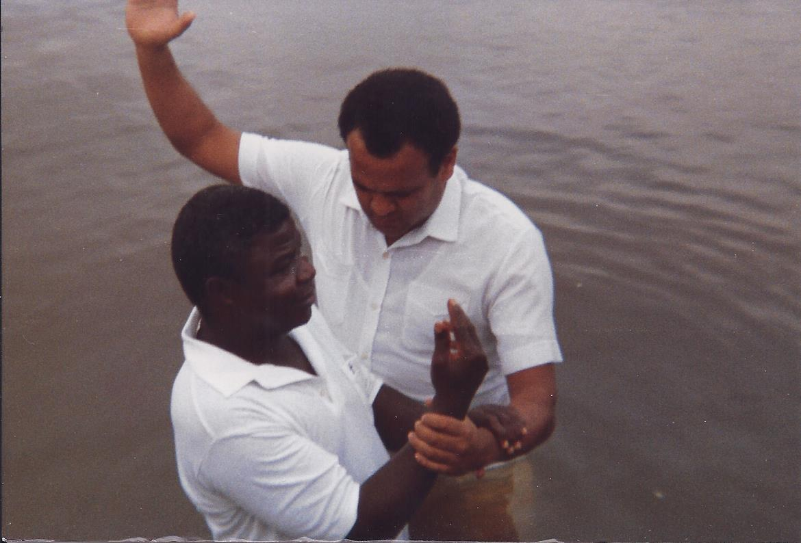 First baptism